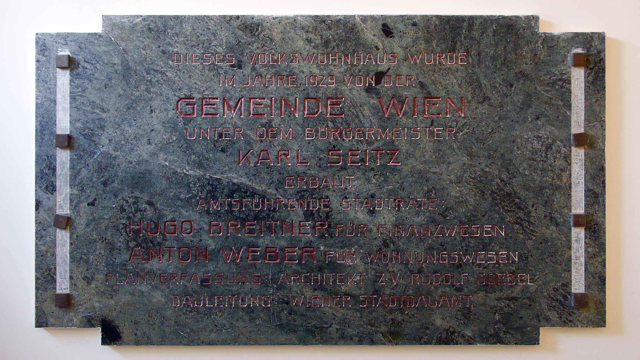 Residential building Rebec-Hof in Vienna Döbling